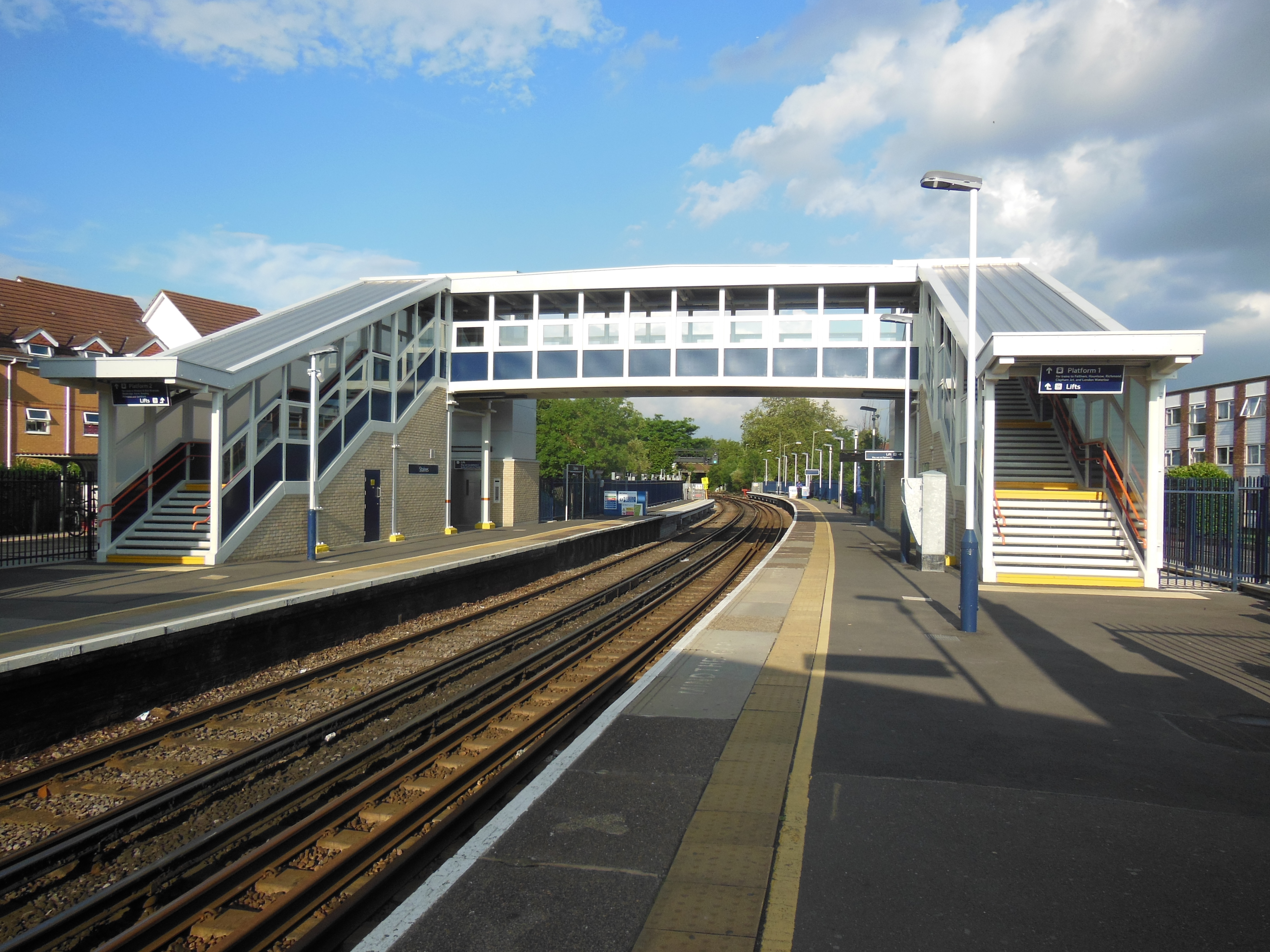 The new footbridge at Staines railway station. For more information, see the Wikipedia article Staines railway station.